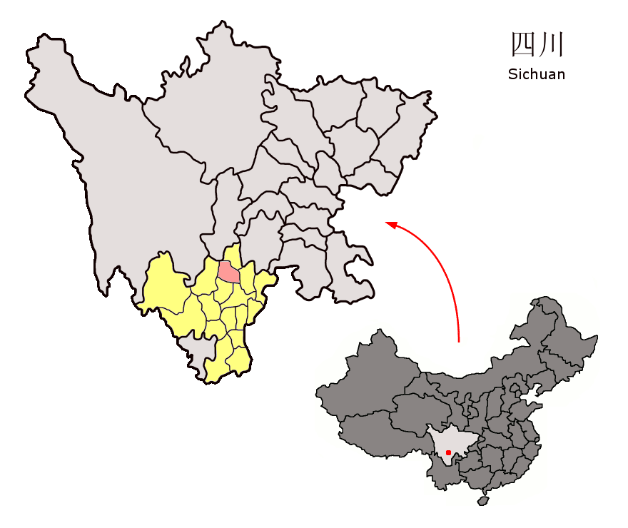 Location of Yuexi County (pink) and Liangshan Prefecture (yellow) within Sichuan province of China Map drawn in september 2007 using various sources, mainly : Sichuan province administrative regions GIS data: 1:1M, County level, 1990 Sichuan Counties map from